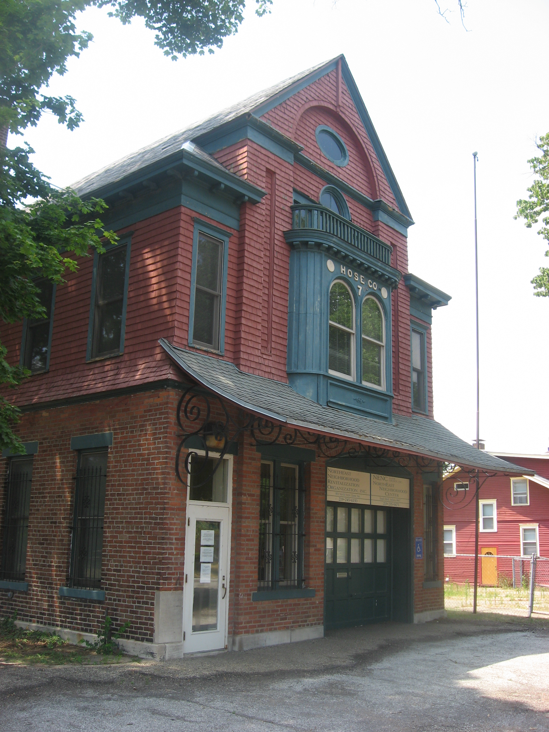 Front of the former Fire House No. 7, located at 803 N. Notre Dame Avenue in South Bend, Indiana, United States. Built in 1904, it is listed on the National Register of Historic Places.